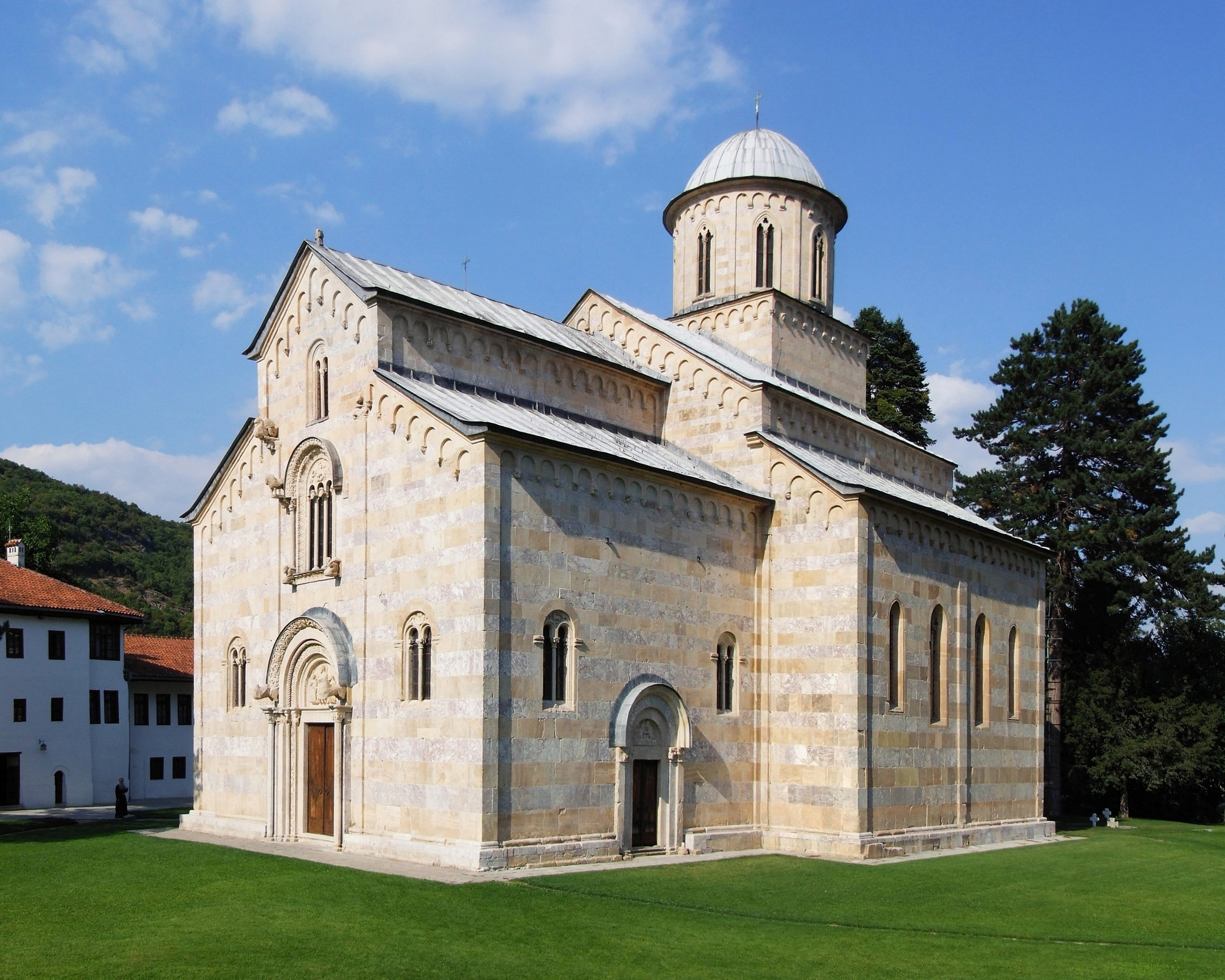 Visoki Dečani Monastery, Kosovo